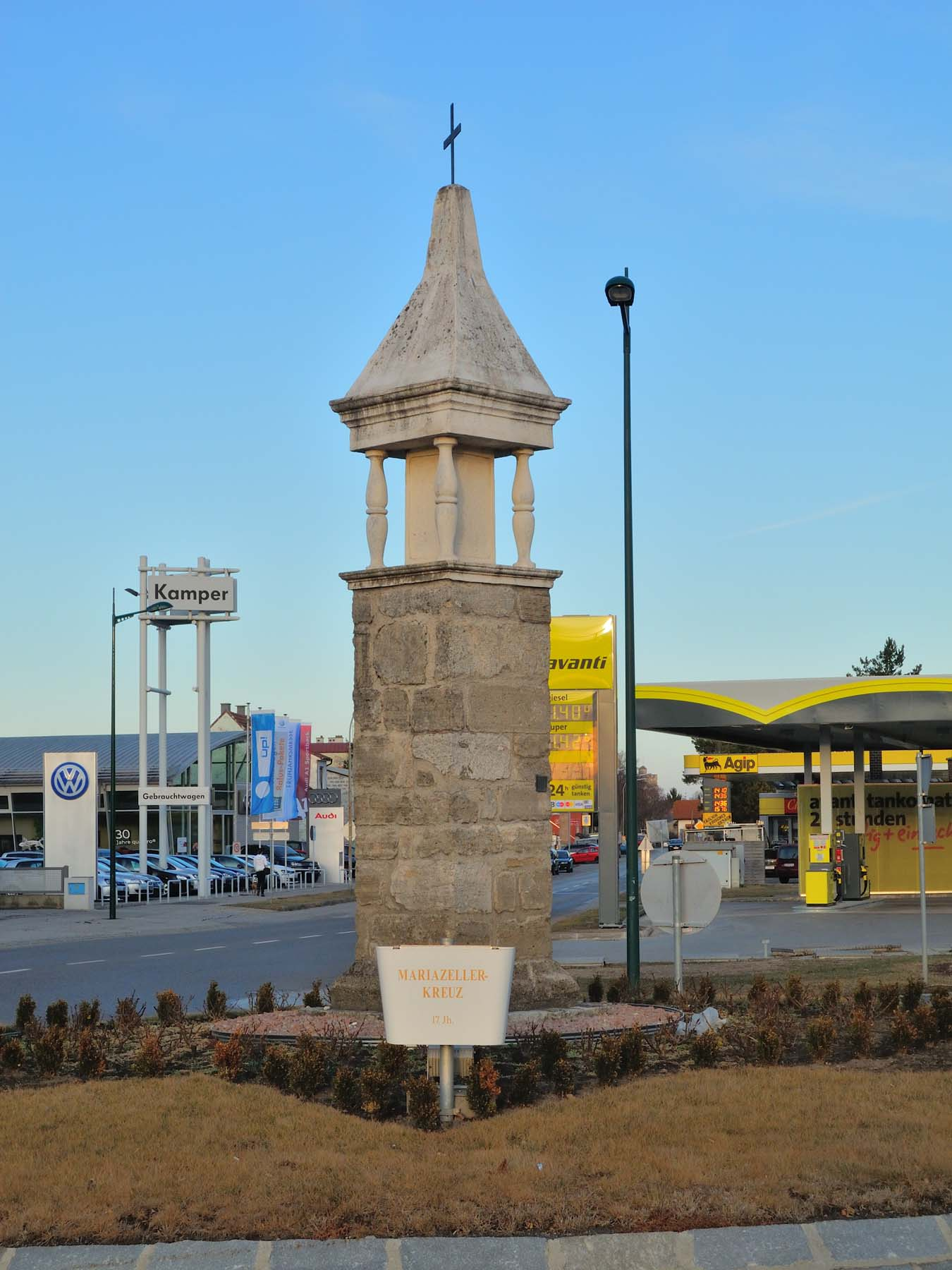 Wayside shrine in Bruck an der Leitha, Lower Austria, Austria